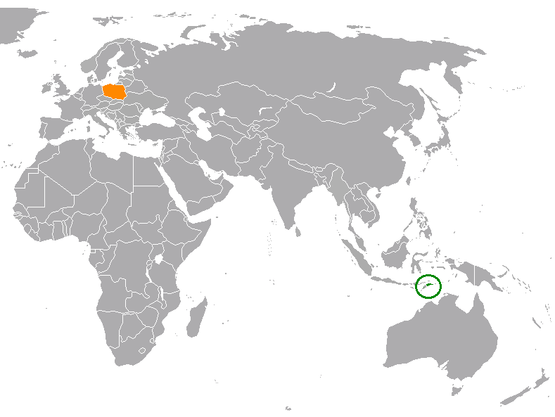 Map showing locations of both East Timor and Poland